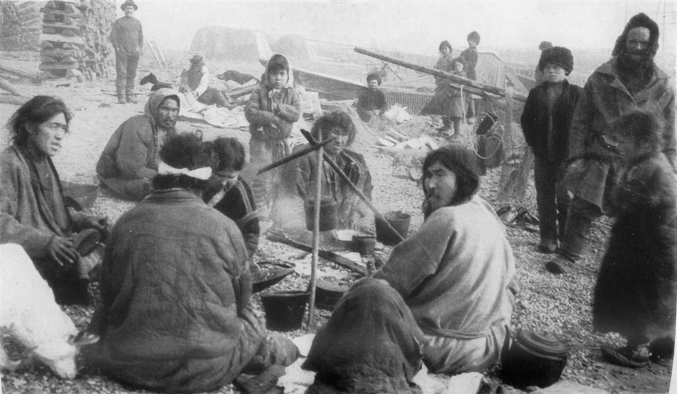 1913 photograph of Ket people around a campfire. Caption says "Group of Yenisei-Ostiaks. Russians standing to the right and in the background. (Sumarokova, Sept. 16th)".